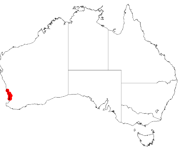 Acacia benthamii Occurrence data from Australasia Virtual Herbarium downloaded from on 8 December 2018